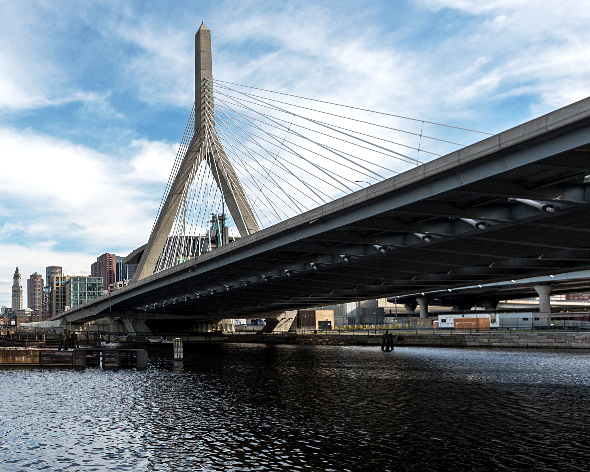 Leonard P. Zakim Bunker Hill Memorial Bridge, from Paul Revere Park in Charlestown. The Boston Custom House Tower in view in the background on the left.